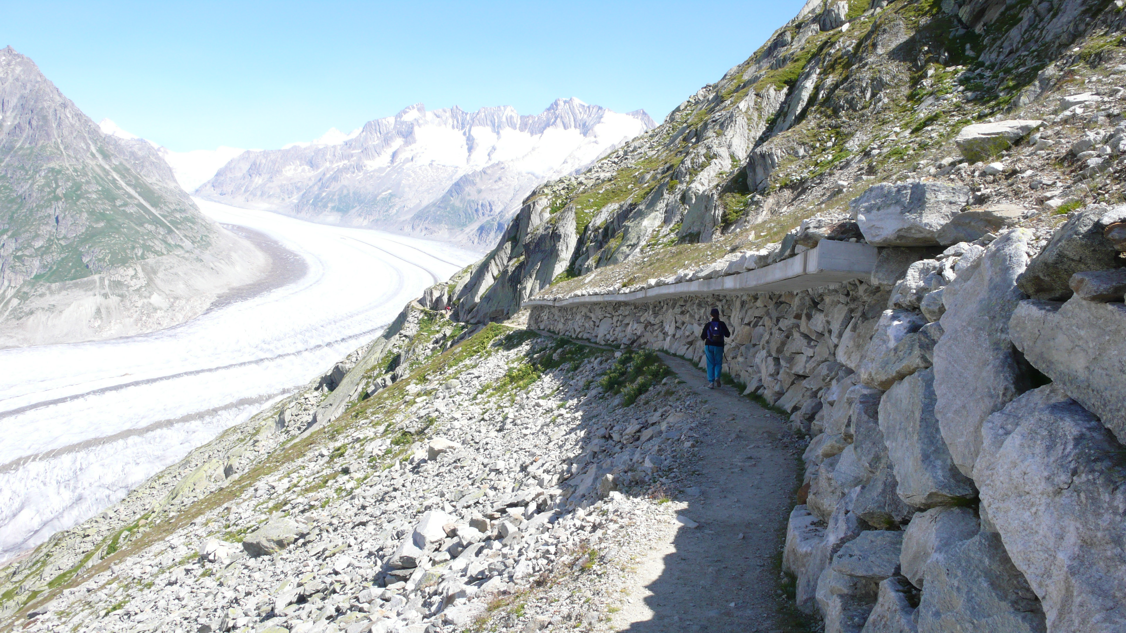 Protection against avalanches for a foot path, Aletsch Glacier